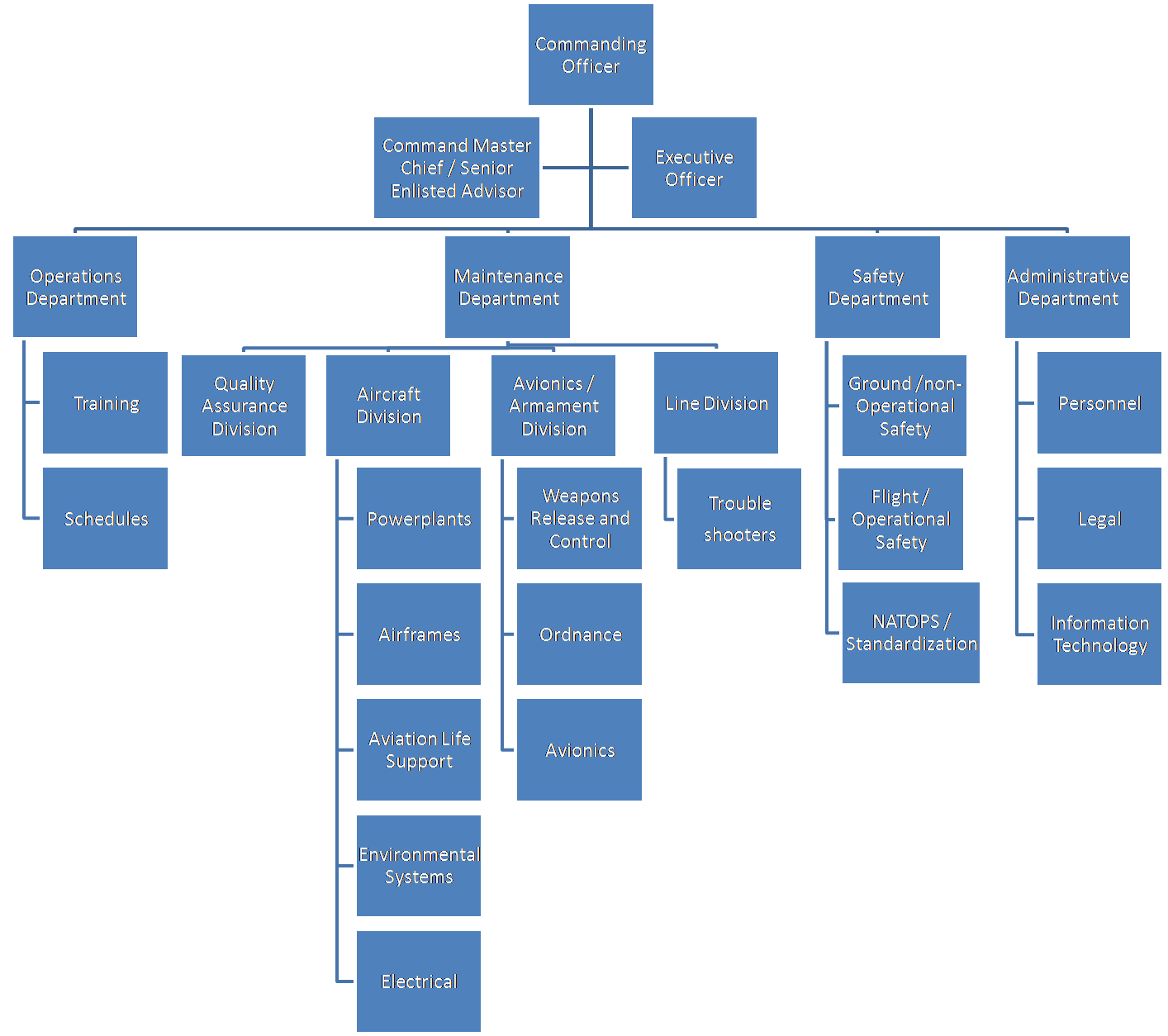 Organizational chart for typical US Navy aircraft squadron.